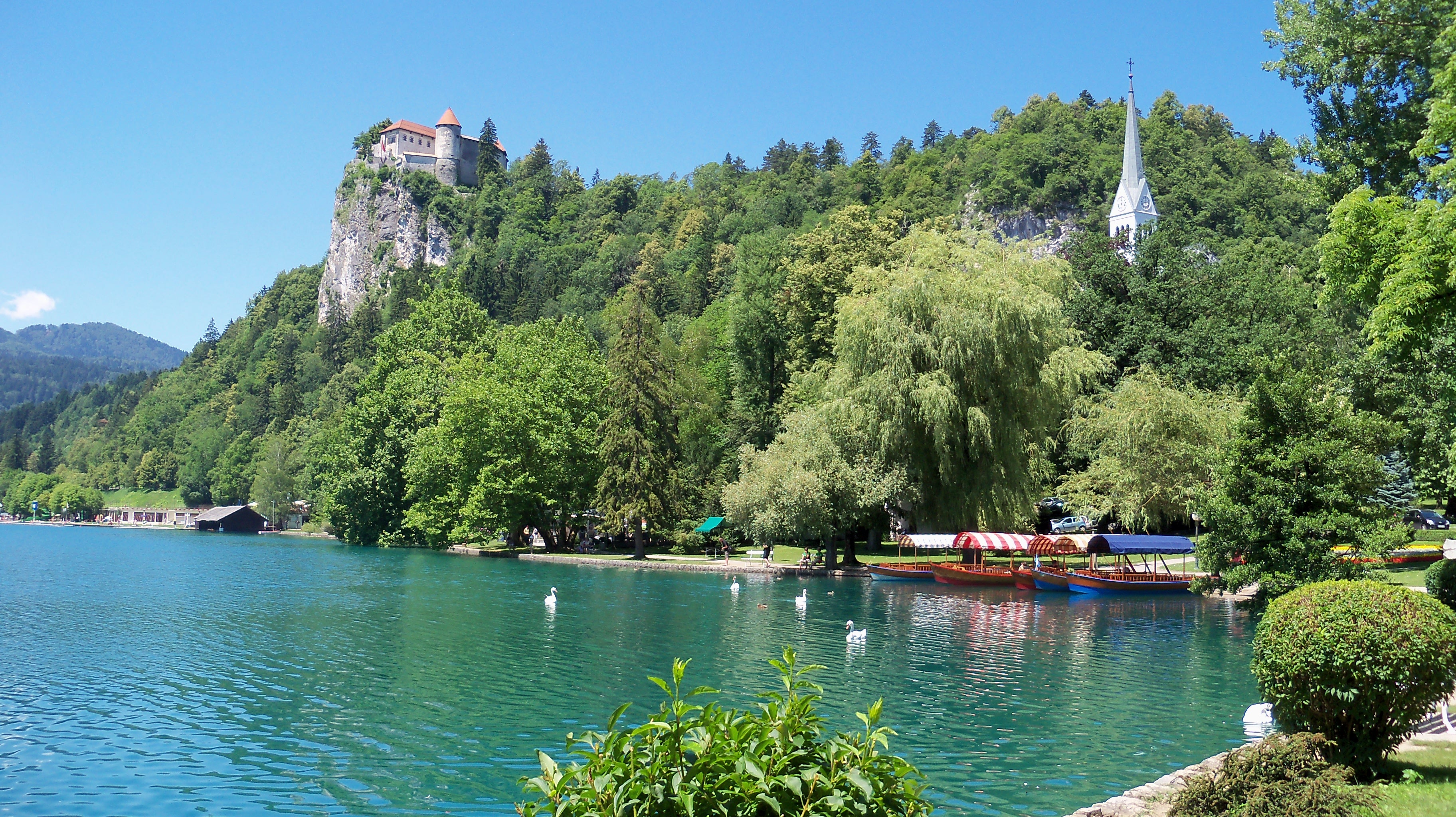 Lake Bled.